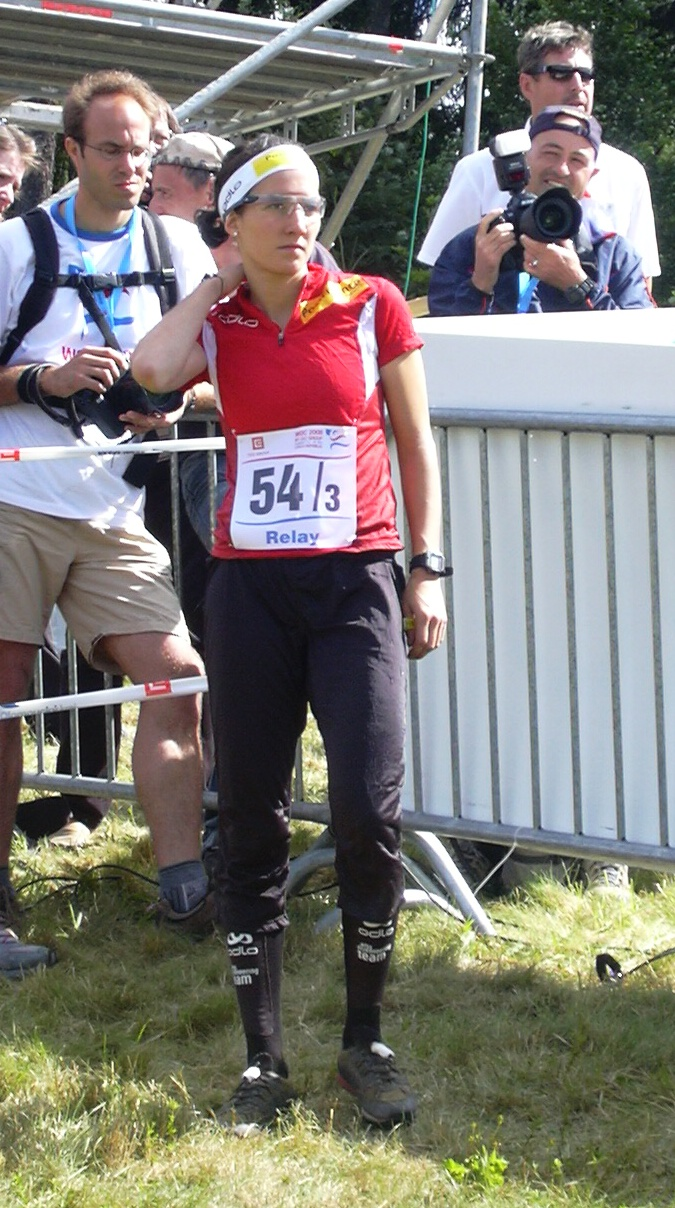 World Orienteering Championships 2008 in Olomouc, Czech Republic. On photo Lea Müller.